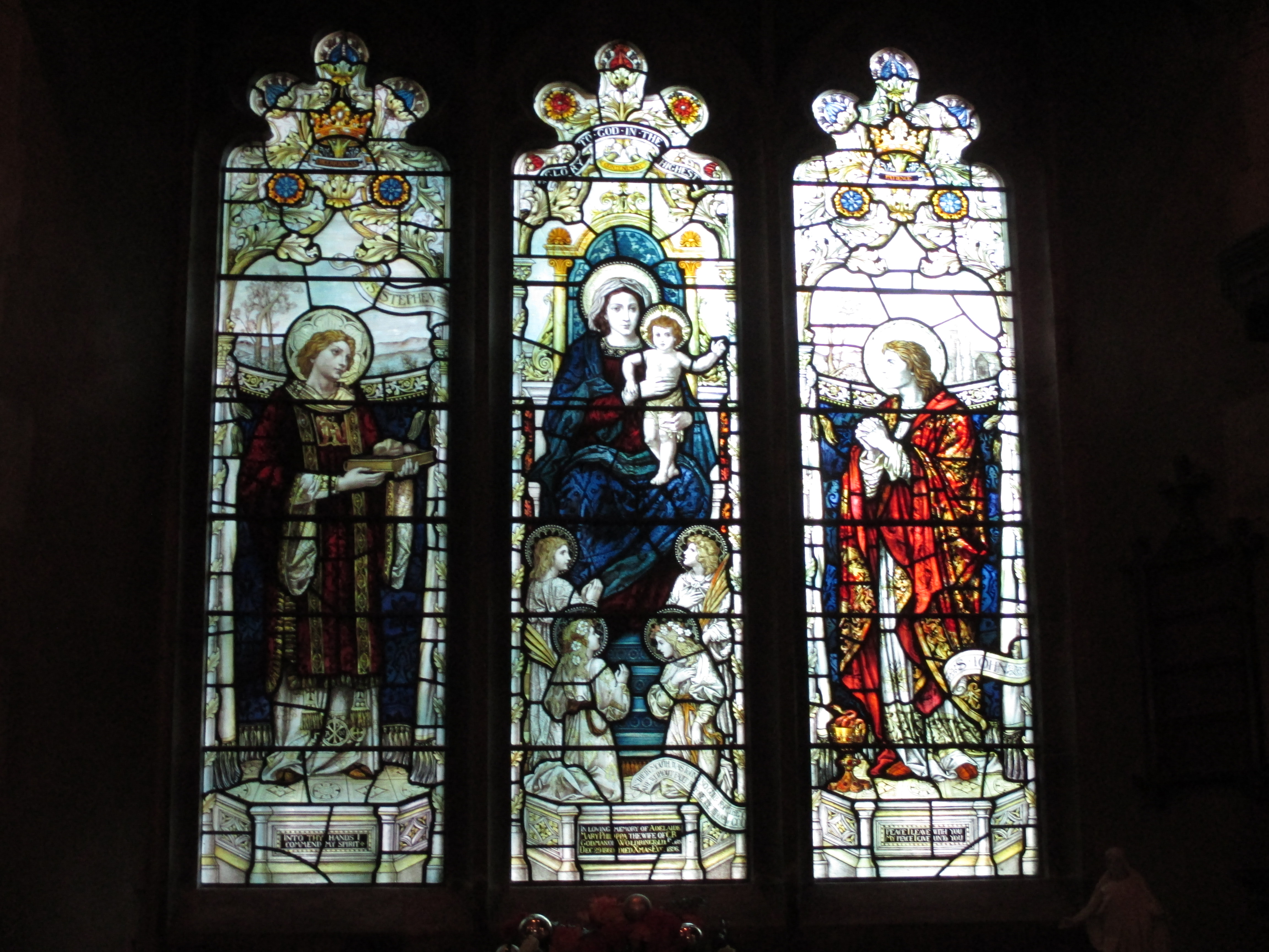 First window on the north side of the nave of St Peter's parish church, Cowfold, West Sussex, with glass made by James Powell and Sons